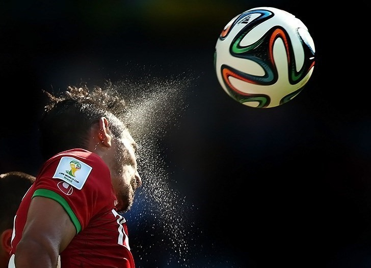 Iran and Argentina national football teams match, 2014 FIFA World Cup Group F